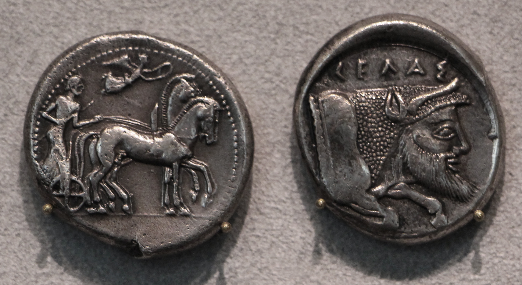 Ancient Greek coins in the Altes Museum Berlin